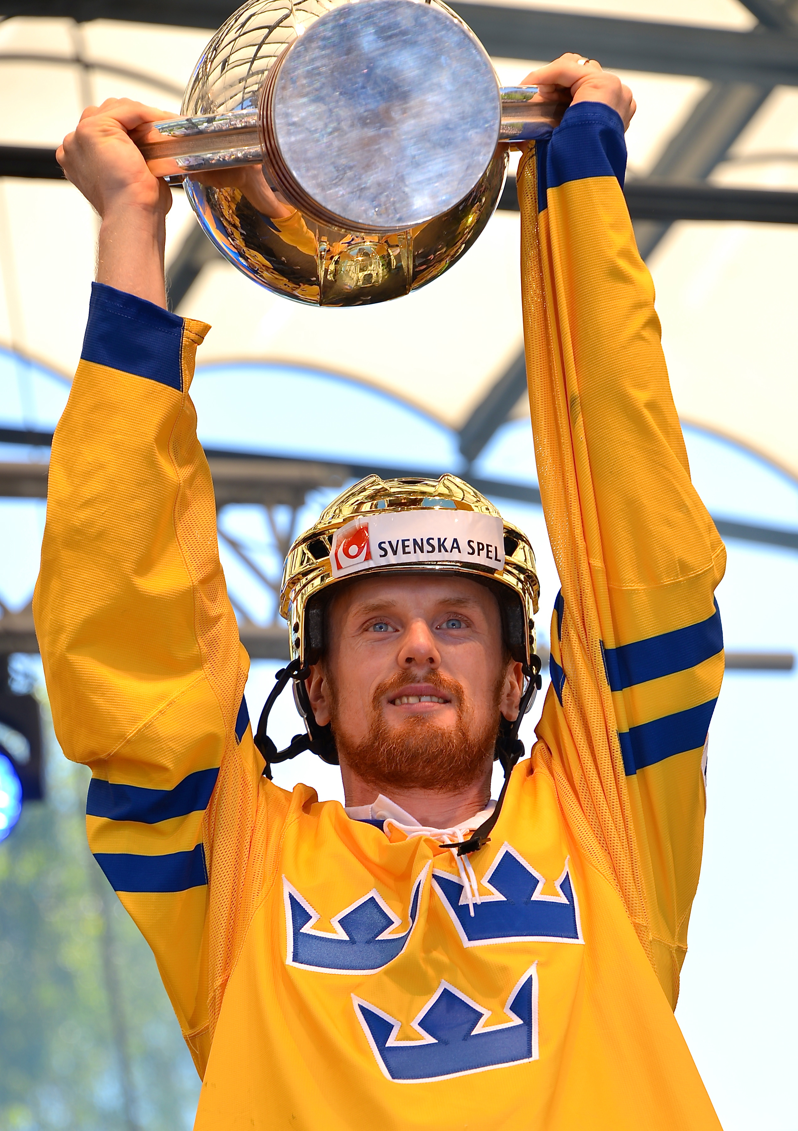 Daniel Sedin lifts the World Cup trophy in Kungsträdgården in Stockholm on May 20th after winning the IIHF World Championship 2013.